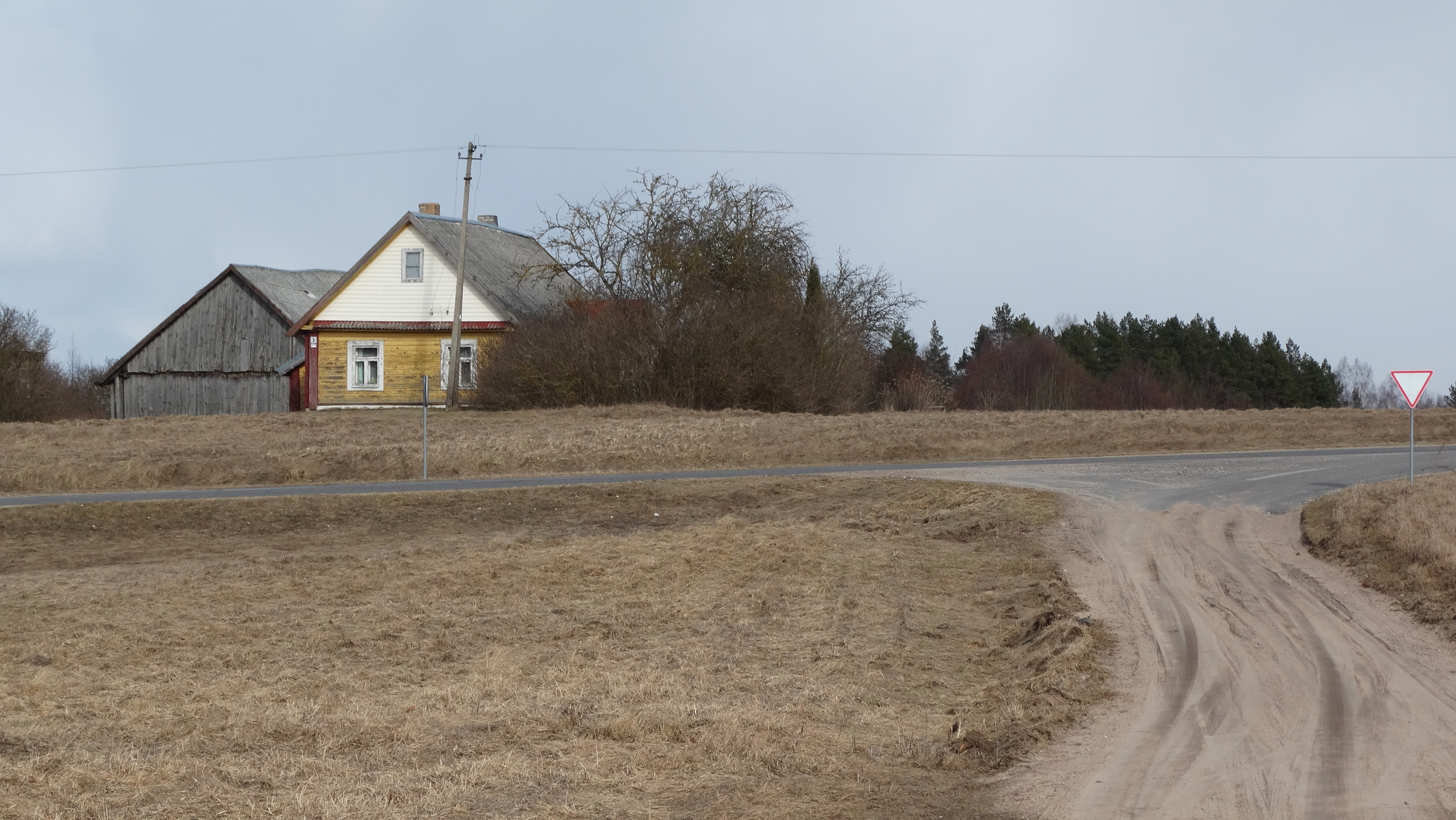 Pažemys, Zarasai district, Lithuania